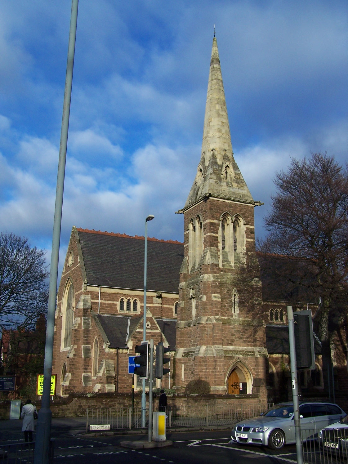 Holy Trinity parish church, Trinity Road, Birchfield, Birmingham, seen from the southwest from the junction with Birchfield Road